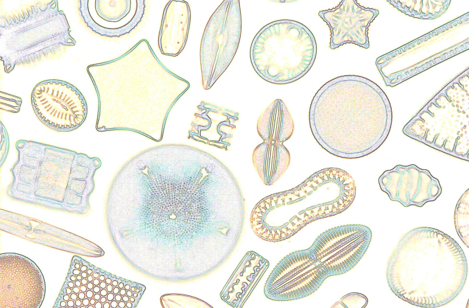 Diatoms